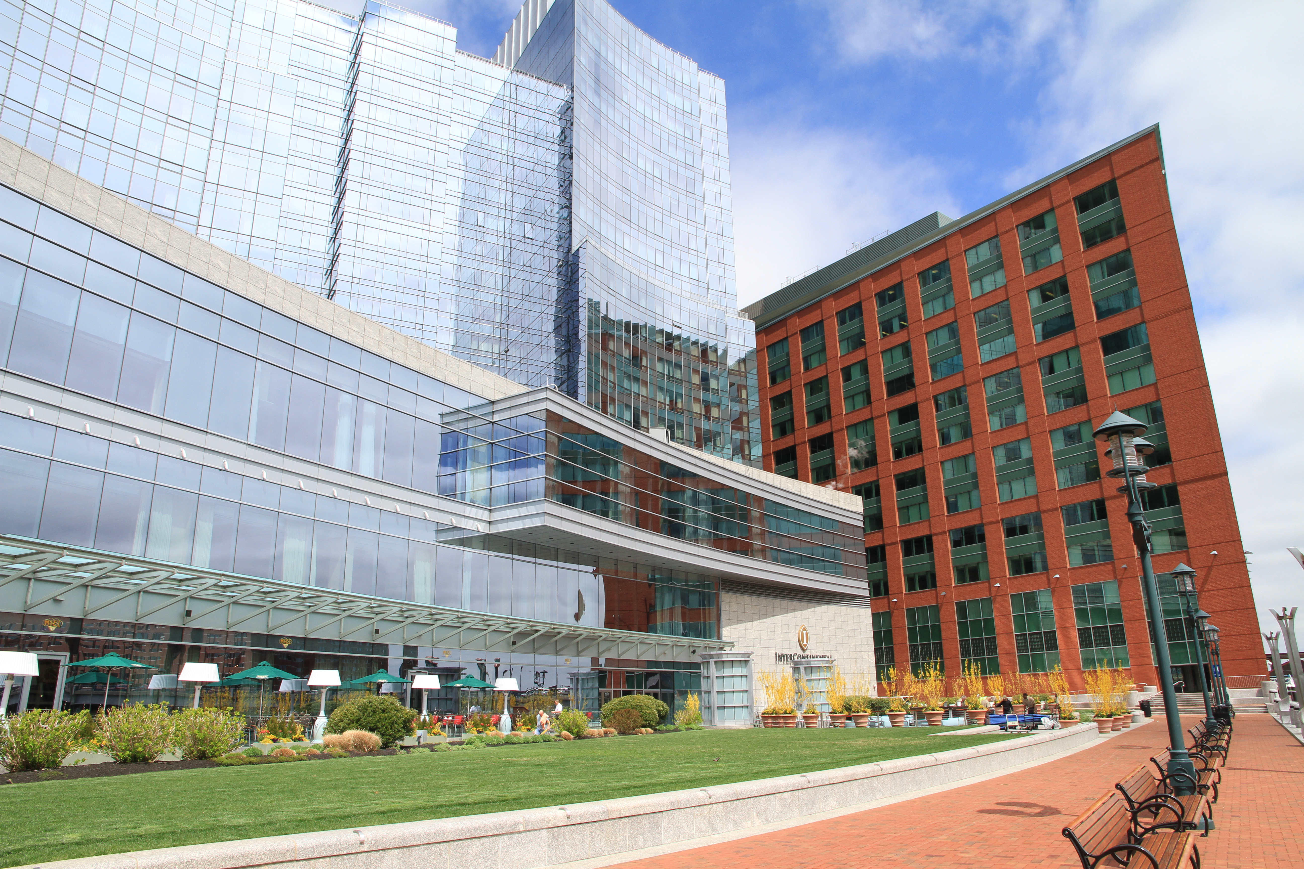 InterContinental Boston